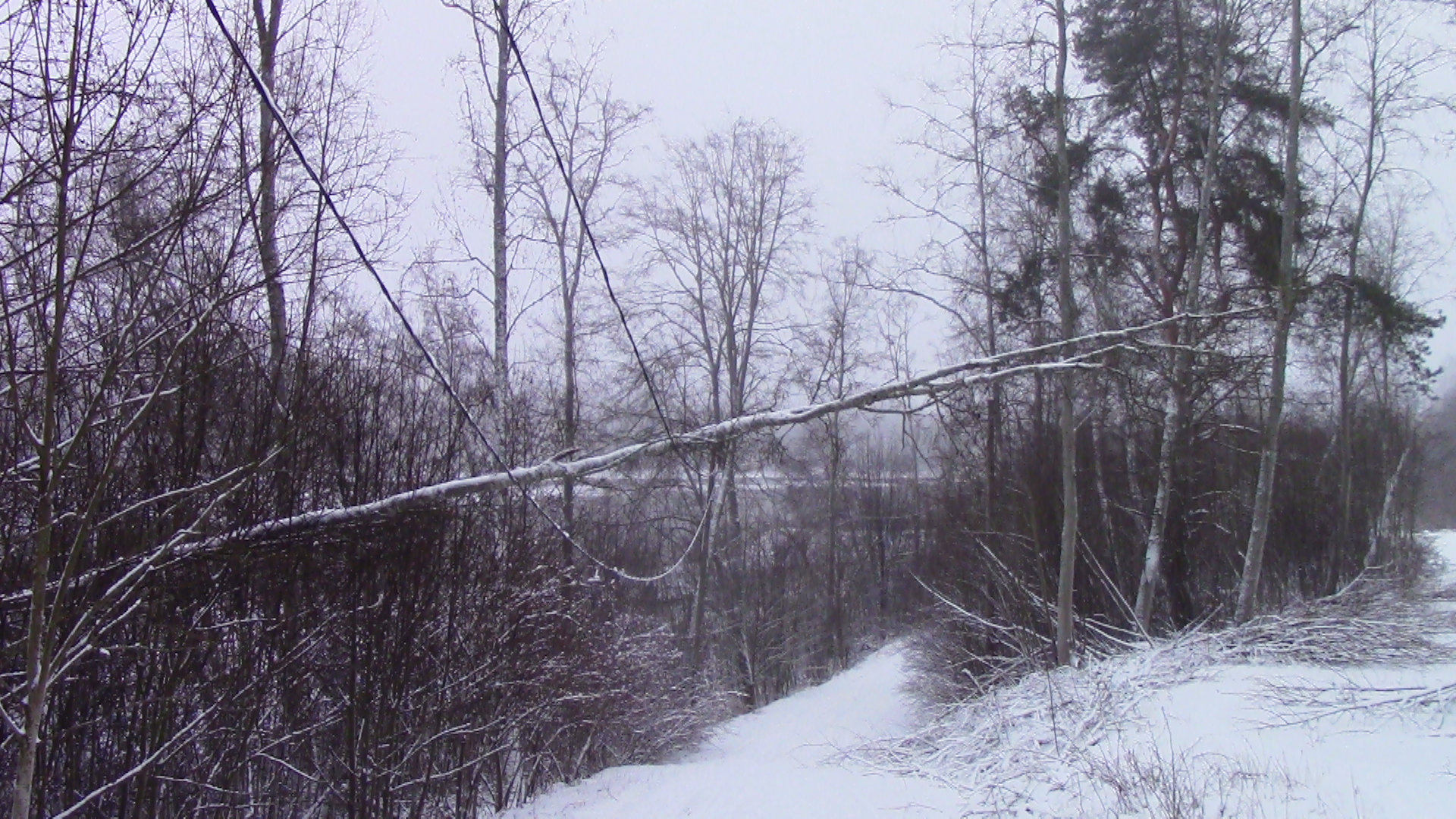 The aftermath of Cyclone Aapeli (Cyclone Alfrida in other Nordic Countries) at jogging path in Nakkila, Finland. The picture's taken two days after the cyclone.